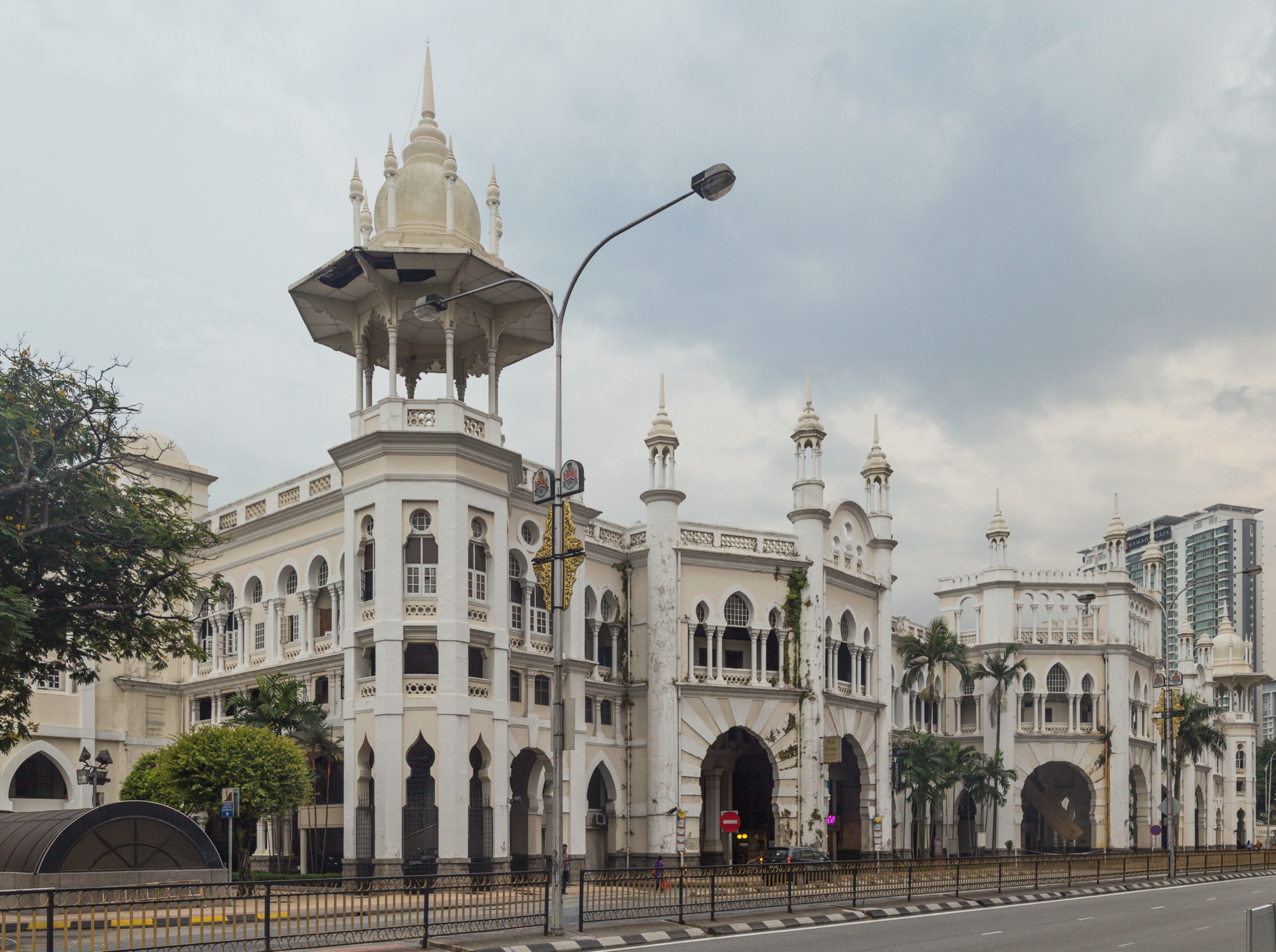 Kuala Lumpur railway station (Stesen keretapi Kuala Lumpur). Kuala Lumpur, Malaysia.